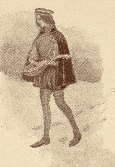 Artist view of Mikołaj Sęp Szarzyński from a historical novel by Adam Krechwiecki